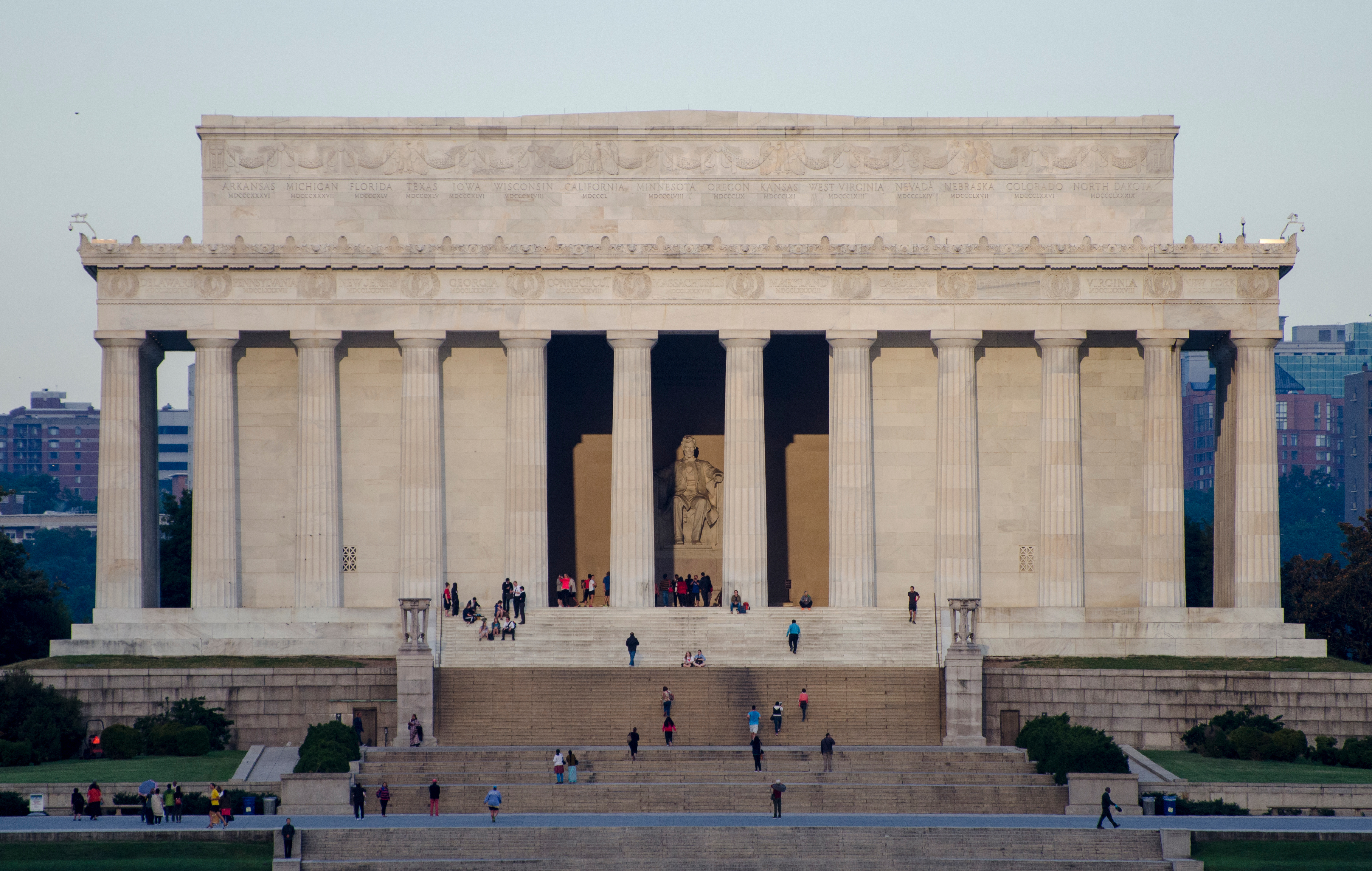 Early morning view of the Lincoln Memorial taken from the World War II Memorial, on the National Mall in Washington DC.